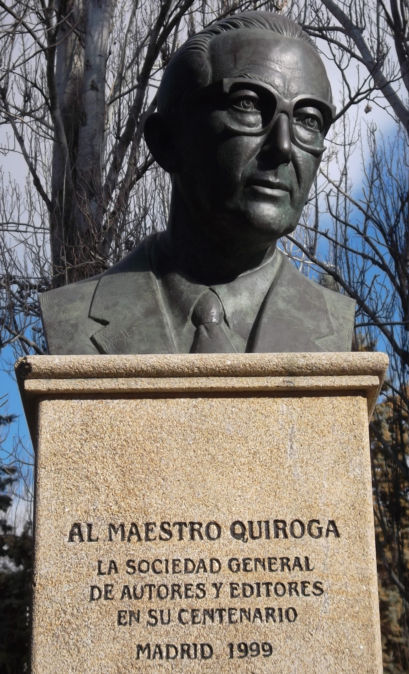 Bronze bust of Maestro Quiroga (1899-1188), Andalusian composer. In the Parque del Oeste, Madrid.